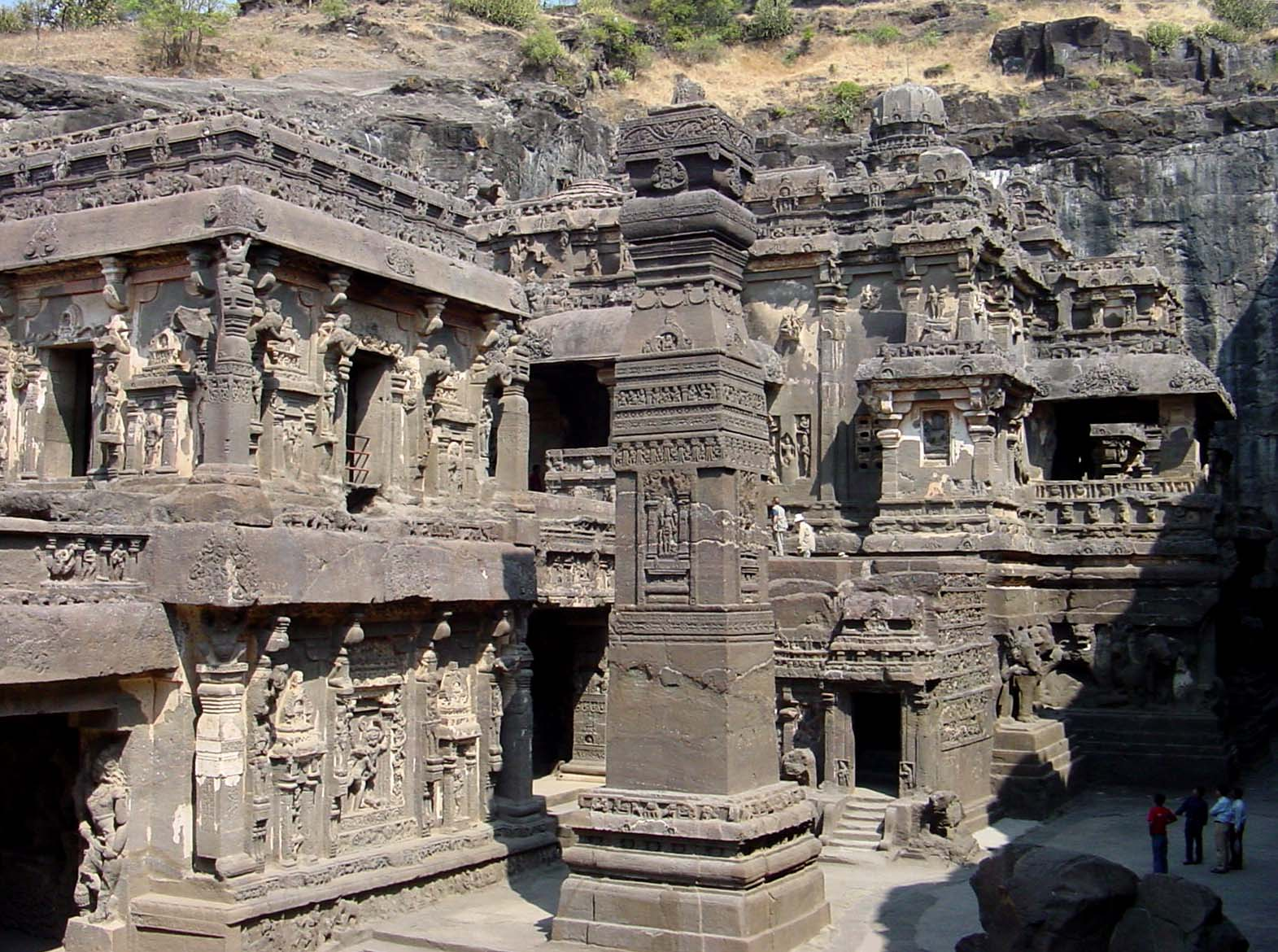 Southwest corner. Kailasanatha Temple, Ellora Looking from southwest to northeast, the Nandi pavilion is photo left, with the south column to the right. Behind them the main bulk of the temple recedes east to the rear of the cliff. The dome-shaped finial of the temple tower can be seen in the background, a bit to the right of the column, just peeping above the temple roof.